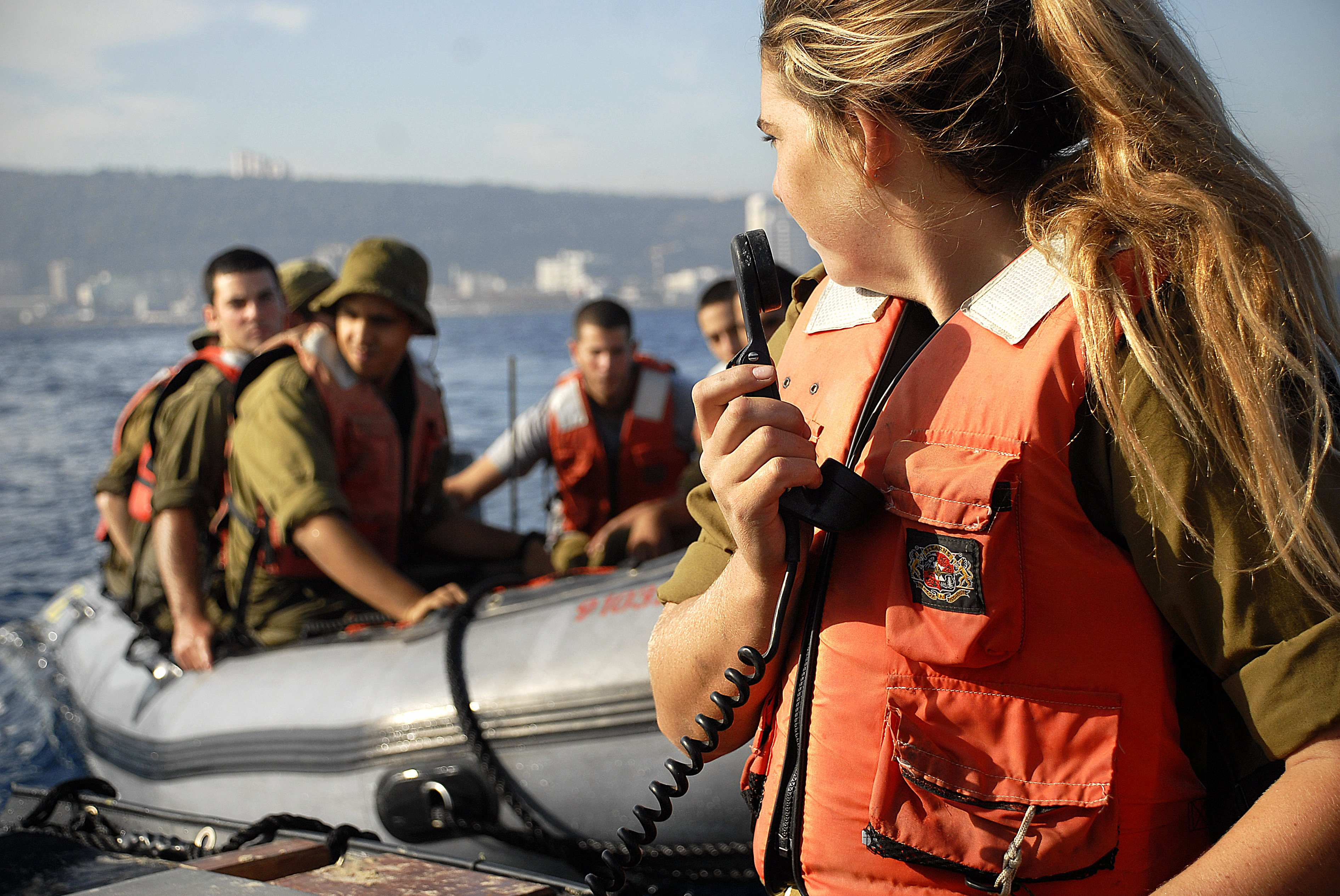 November 24, 2010 In celebration of the upcoming International Women's Day, we've decided to share with you photos of women serving across the range of different units in the IDF. On the ground, in the sea, or in the air; the IDF's women take equal part in protecting Israel at all times. Pictured: A course instructor of the Snapir ("Fin") Unit, a mixed male and female combat unit, practicing in inflatable rubber boats in the Haifa Bay. Featured as 'Photo of the Day' on March 7, 2011. Photo by Cpl. Iris Lainer, IDF Spokesperson's Film Unit.